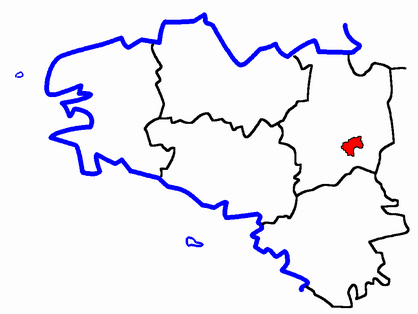 Description: Map for localisazion of cantons of Bretagne region in France Source: made by Hervé Tigier from another large map